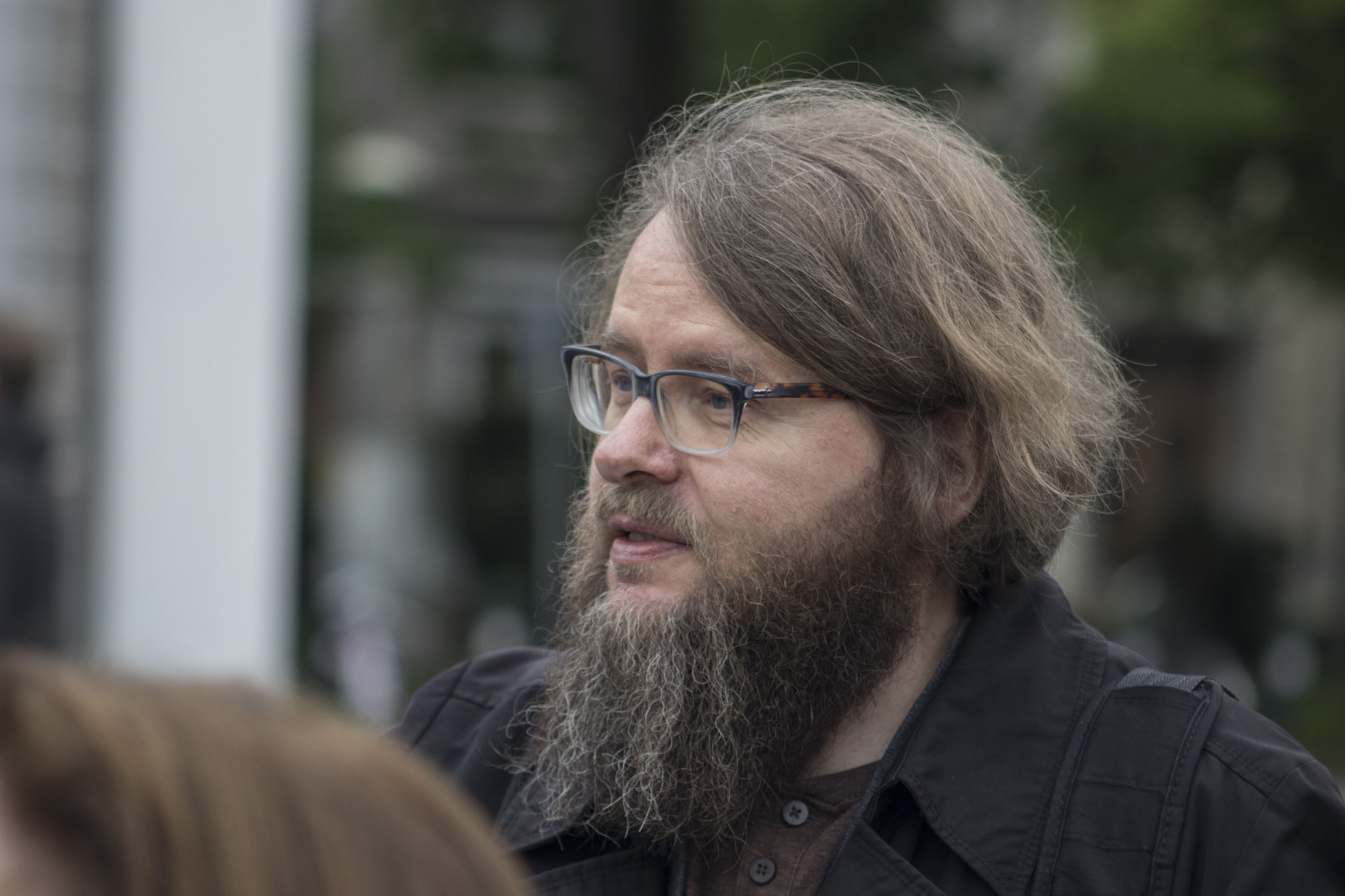 Estonian writer Jan Kaus in 2019, at HeadRead literary festival in Tallinn